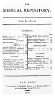 The Medical Repository, Volume 1, Issue 1, Contents page